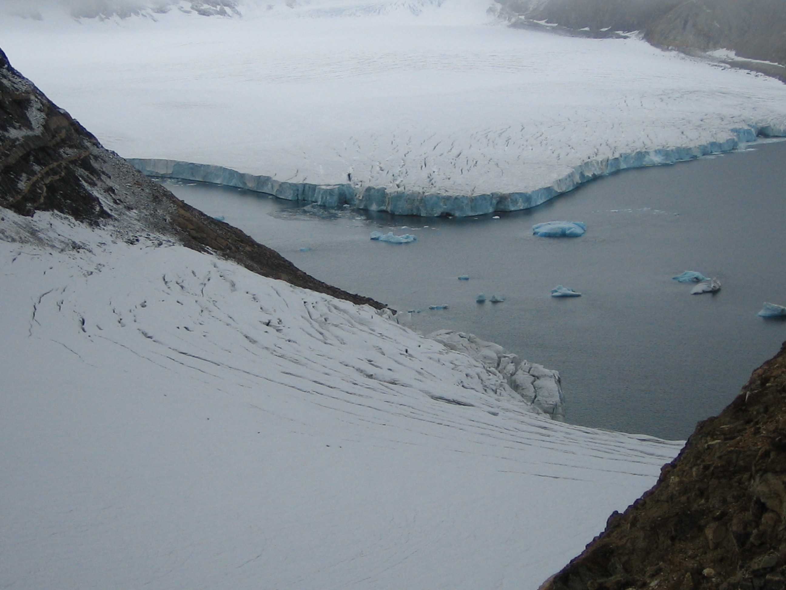 Image of the new strait uncovered by a retreating ice shelf, taken from Warming Island (Uunartoq Qeqertaq) East Greenland, 2006. Photo by John Rudolf